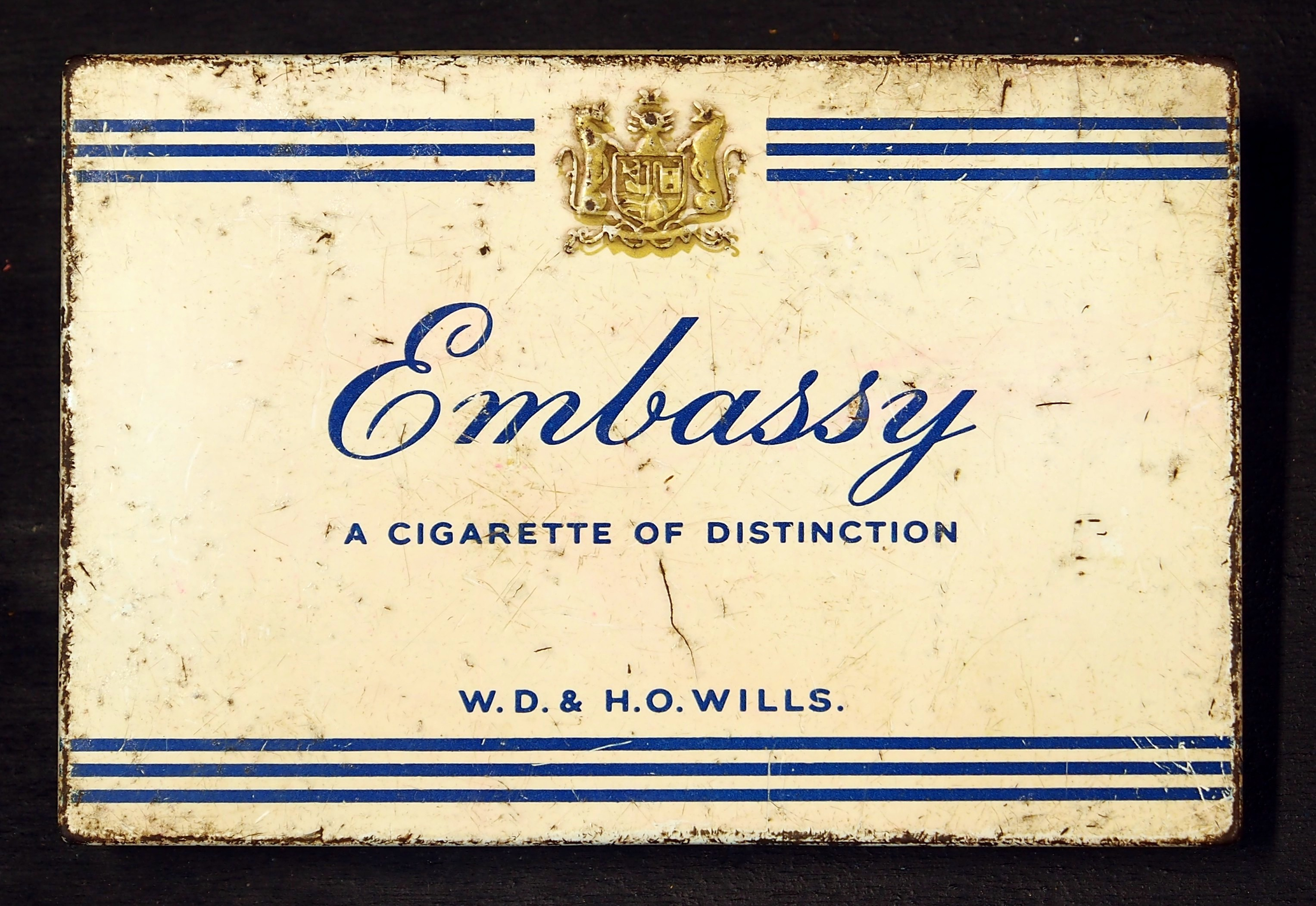 Old product not sold anymore!